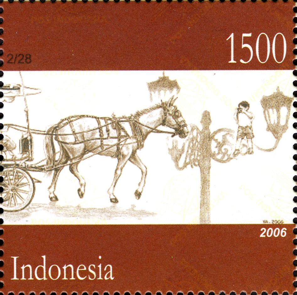 Stamps of Indonesia